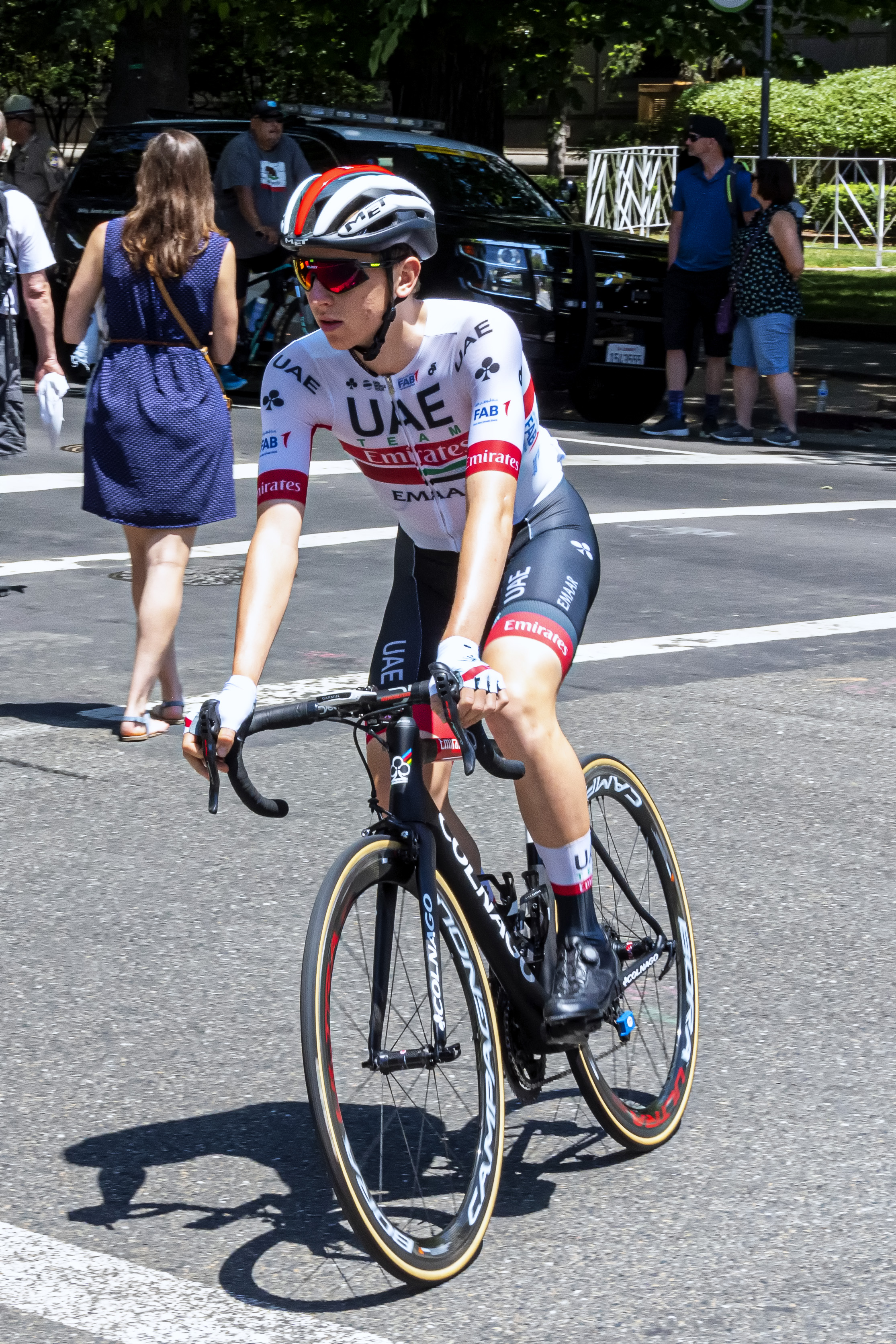 Amgen Tour of California 2019 Stage 1 Sacramento- Sacramento Road Race Sunday May 12 UCI World Tour